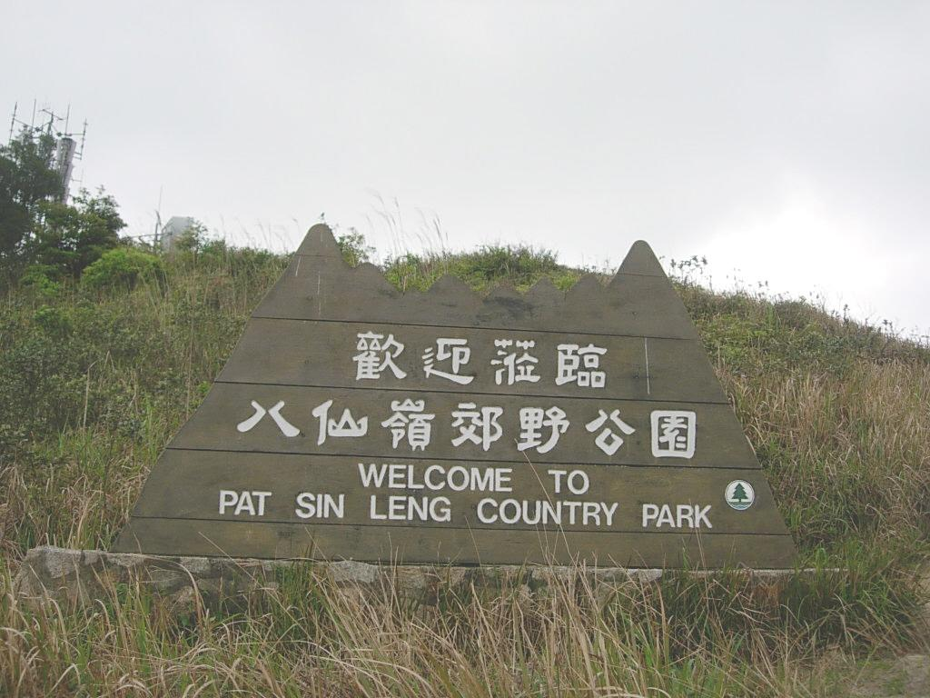 Photo created by me.